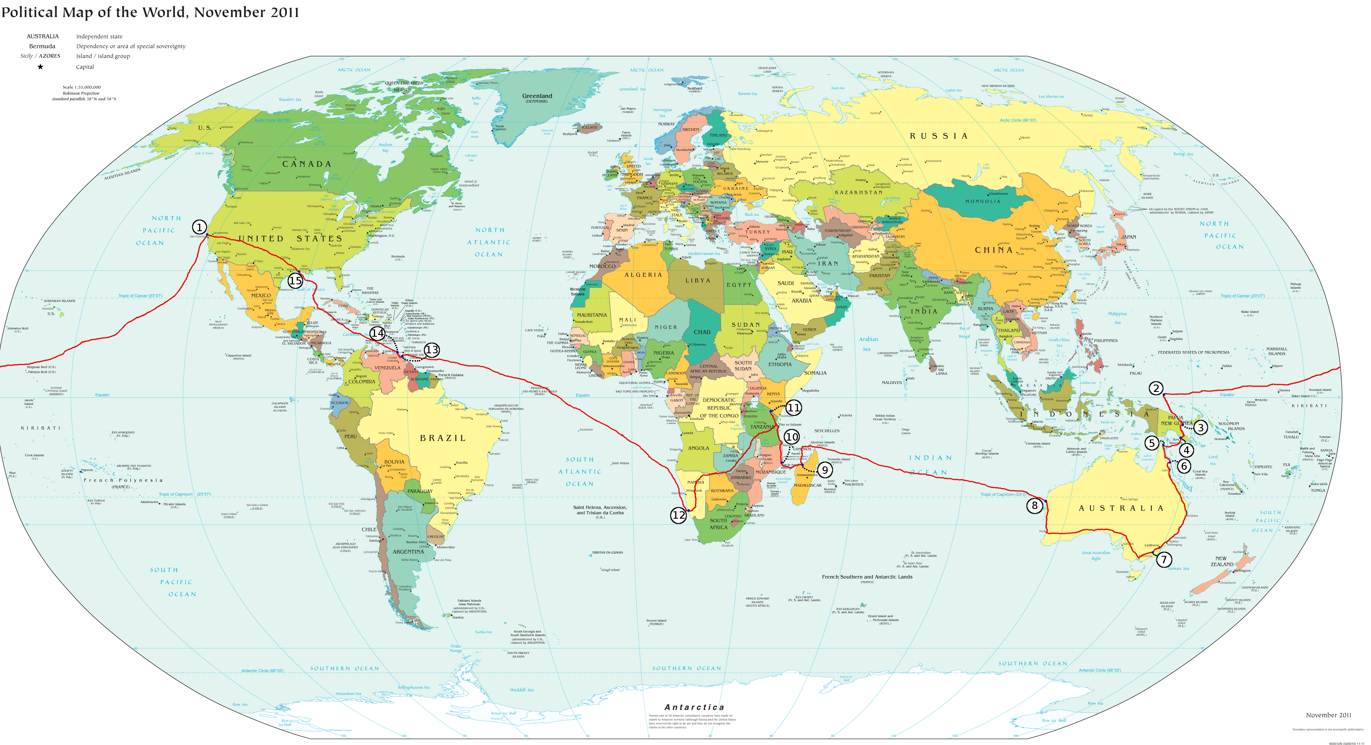 The approximate route taken by Erden Eruç during the first entirely solo and entirely human-powered circumnavigation of the Earth. The route is shown as a red line. Major waypoints are marked in blue with a number: 1. start point in Bodega Bay, California, United States, by rowboat to cross the Pacific Ocean 2. picked up by Filipino fishermen, brought to the Philippines, then returned to same spot after typhoon season ends 3. Pacific Ocean crossing ends at Finsch Harbor, Papua New Guinea (PNG) after which Eruç walks and sea kayaks along the shores and then hikes the Kokoda Track across the island 4. departs Port Moresby, PNG to cross the Coral Sea by rowboat 5. arrives at mouth of Escape River, Australia near Turtle Head Island from where he later continues by sea kayak (after a side trip to Australian Customs and Quarantine on Thursday Island) 6. arrives Cooktown, Queensland to begin first bicycle segment 7. climbs Mount Kosciuszko and continues biking west 8. departs Carnarvon, Western Australia by rowboat to cross the Indian Ocean 9. arrives Mahajanga, Madagascar from where he later departs again by rowboat after cyclone season ends 10. arrives Angoche, Mozambique and continues by bicycle 11. climbs Mount Kilimanjaro and continues biking west 12. departs Lüderitz, Namibia by rowboat to cross the Atlantic Ocean 13. arrives Güiria, Venezuela and continues by bicycle 14. departs Carúpano, Venezuela in rowboat to cross the Caribbean Sea and Gulf of Mexico 15. final landfall at Cameron, Louisiana, United States, and continuation by bicycle back to Bodega Bay, California At the time this version of the CIA political world map was published in late 2011, Eruç was rowing northwest across the Atlantic Ocean near the middle of the map.